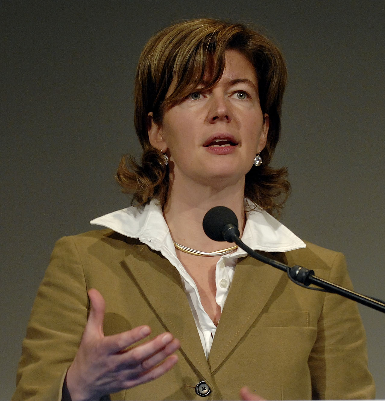 Online Educa Berlin 2007 - Opening Plenary, November 29, 2007, Patricia Ceysens